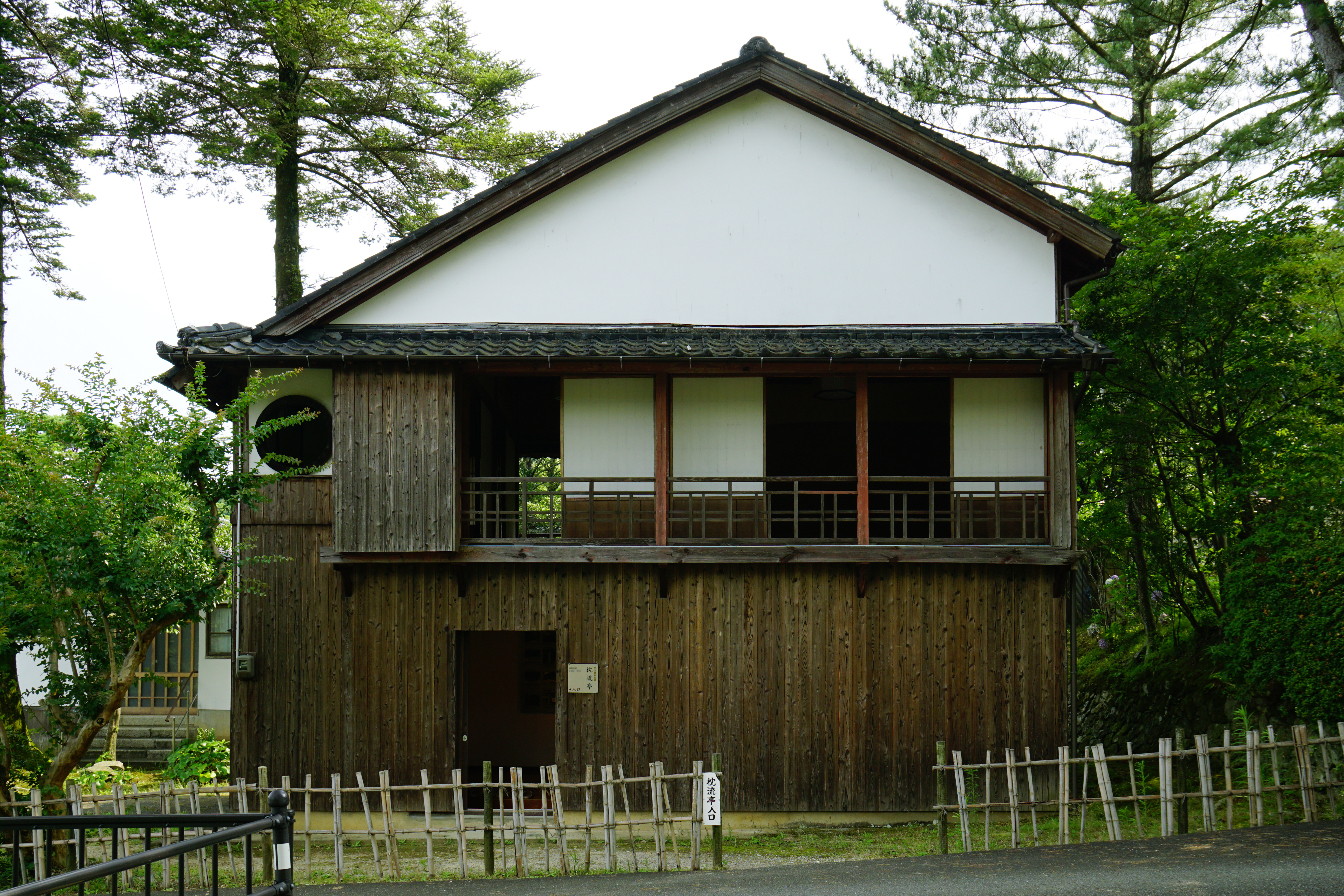 Rurikō-ji in Yamaguchi, Yamaguchi prefecture, Japan.